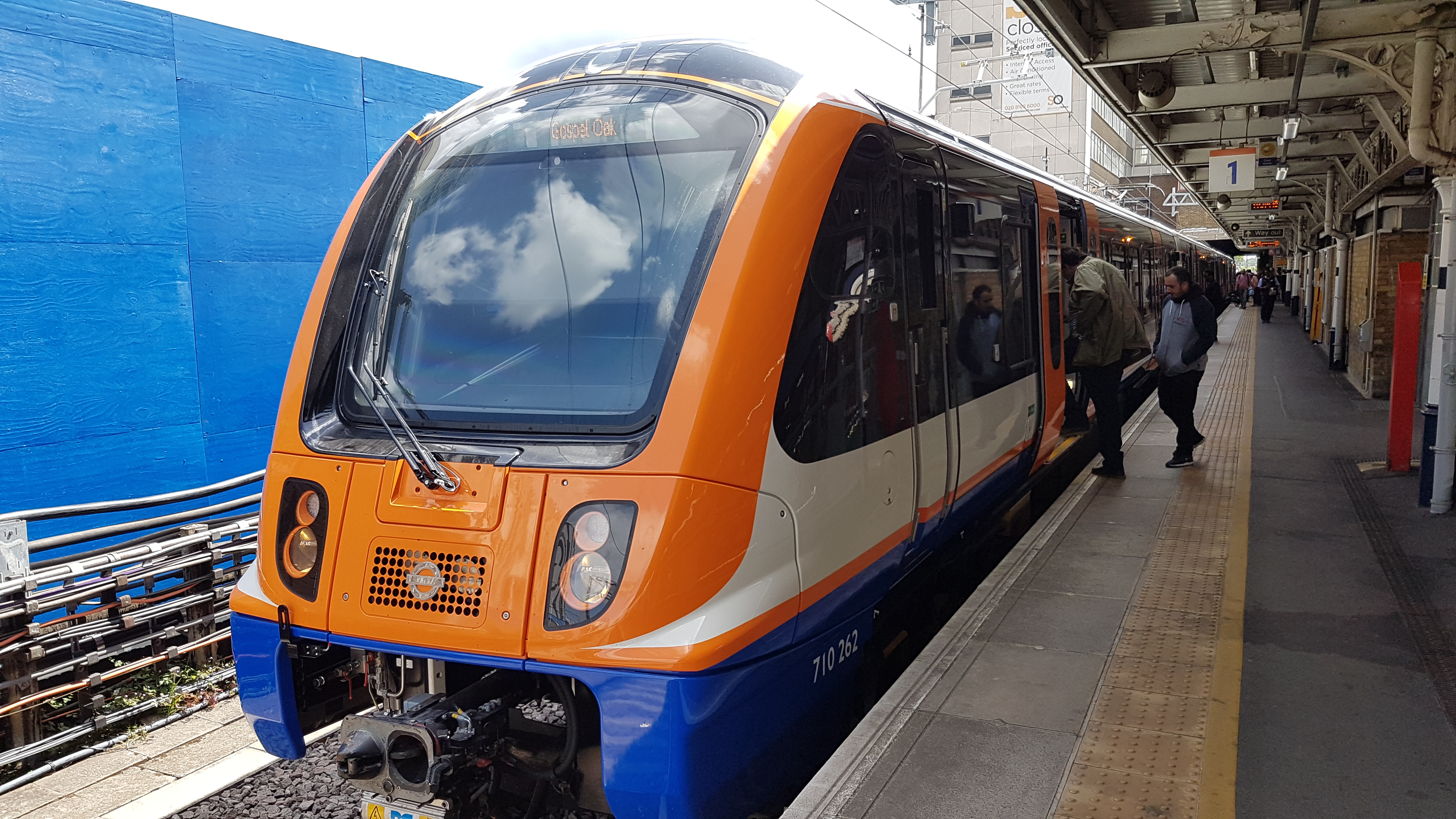 An example of the new class 710 four-coach class 710 electric train introduced onto the Gospel Oak to Barking line in May 2019